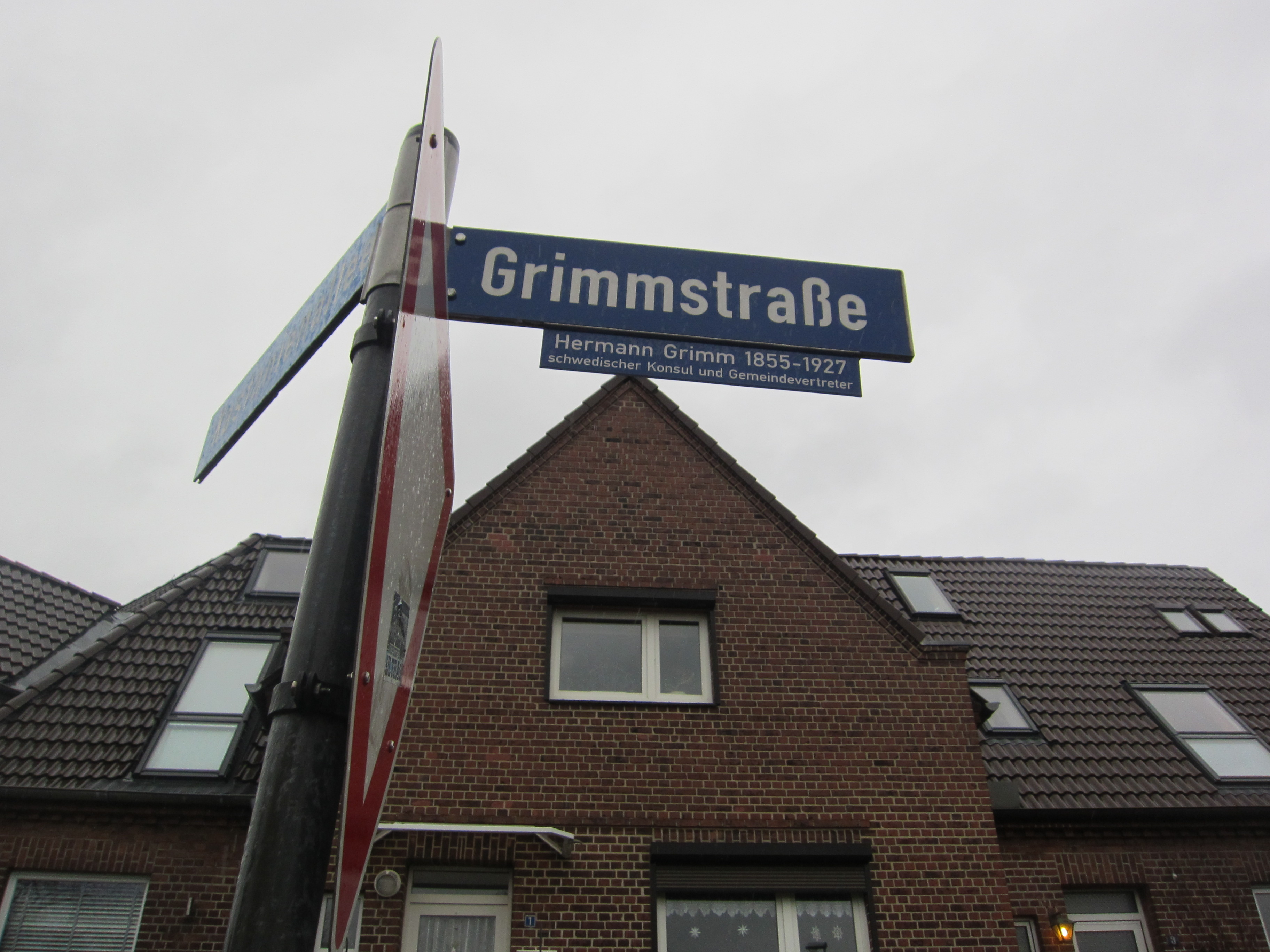 Street sign "Grimmstraße", Kiel-Holtenau